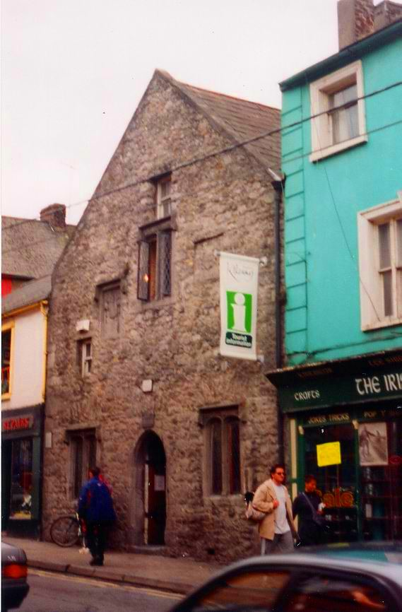 Houses in Kilkenny which survive from the same period as Rothe House are; 'The Hole in the Wall', High Street, built 1582-4 by the Archer family; Shee Alms House, Rose Inn Street built 1582 by the Shee family; The Bridge House, John Street built around the late 16th century which survives in part; Kyteler's Inn, St. Kieran's built 1473–1702 built by the Kyteler family; also Deanery, Coach Road in 1614 and 21 Parliament Street which was built in the late 16th/17th century and survives in part.